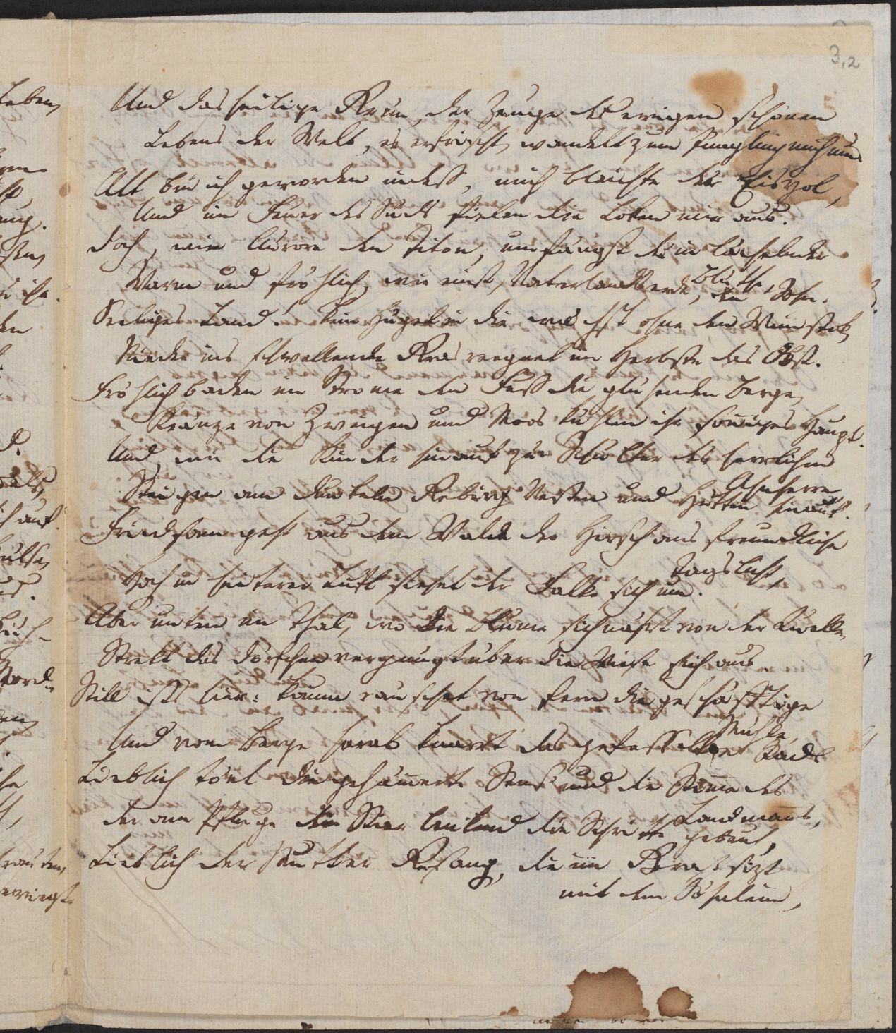 Manuscript by Friedrich Hölderlin "Der Wanderer", page 4